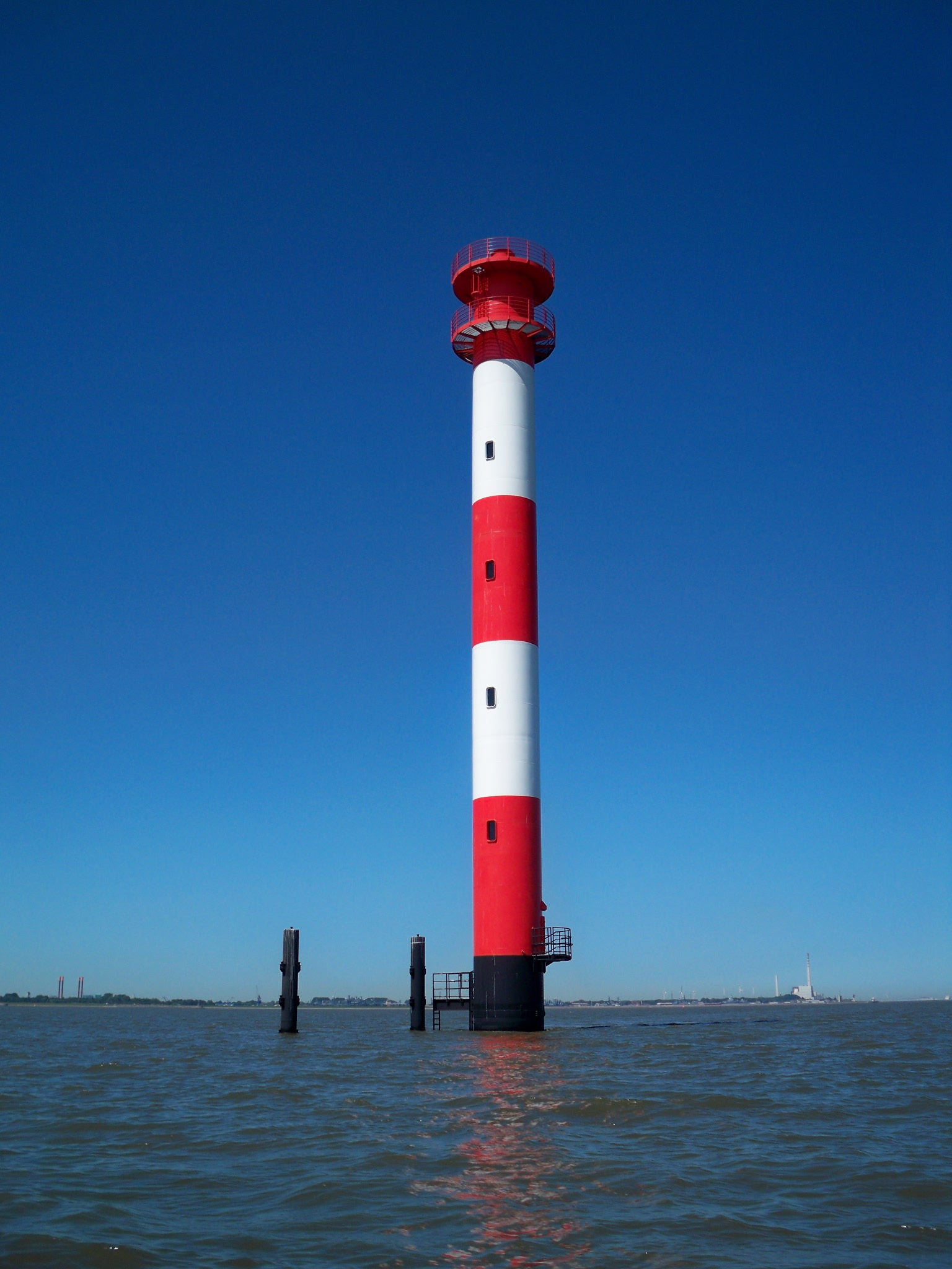 Jappensand rear light